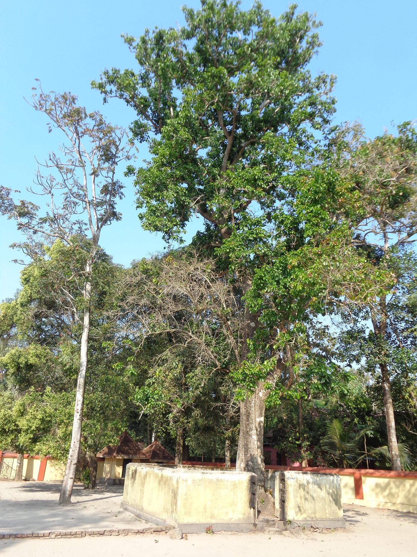 the big kanjira tree behind pandavarkavu temple, muthukulam, harippad